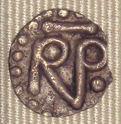 Pepin_le_Bref_denier_Troyes_751_768.